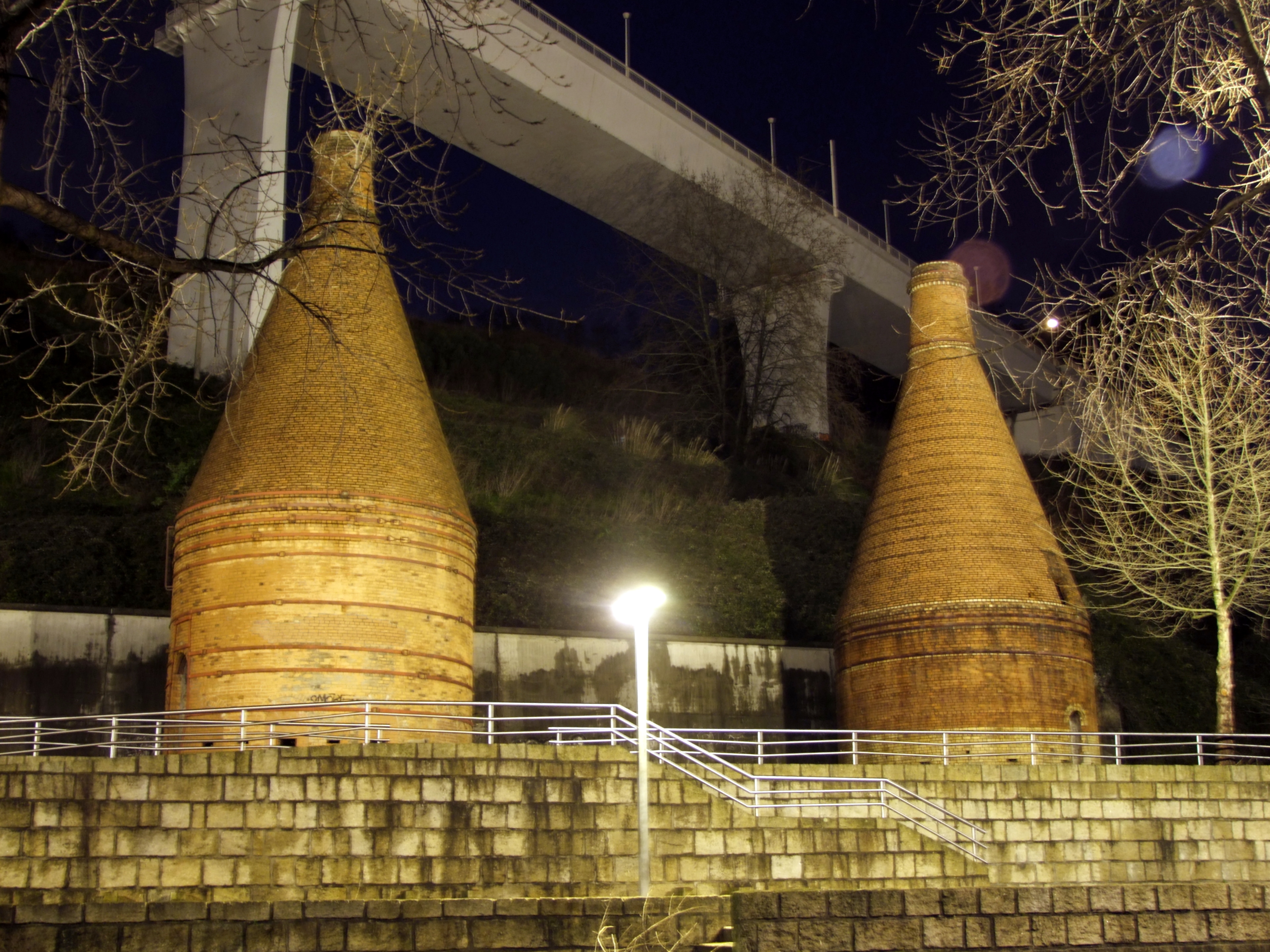 Fornos da Fábrica de Louças de Massarelos, freguesia do Bonfim, Porto, Portugal